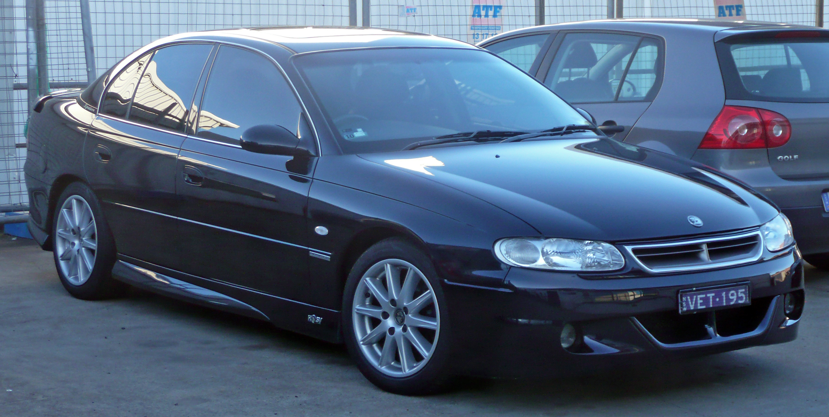 1999–2000 HSV Senator (VT II) Signature sedan. Photographed in Kirrawee, New South Wales, Australia.